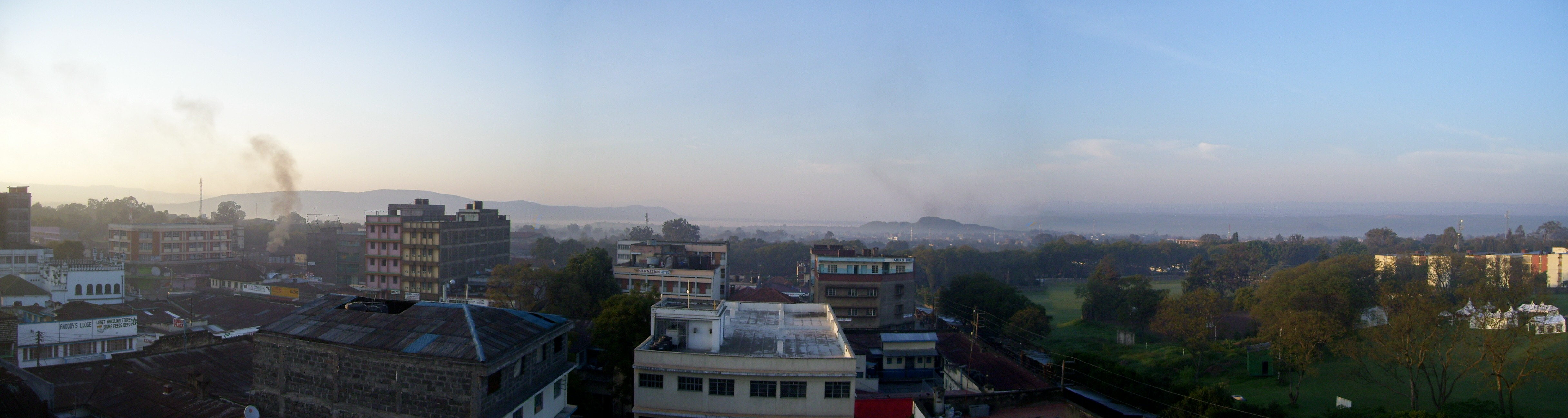 Nakuru Skyline with Lake Nakuru in the background